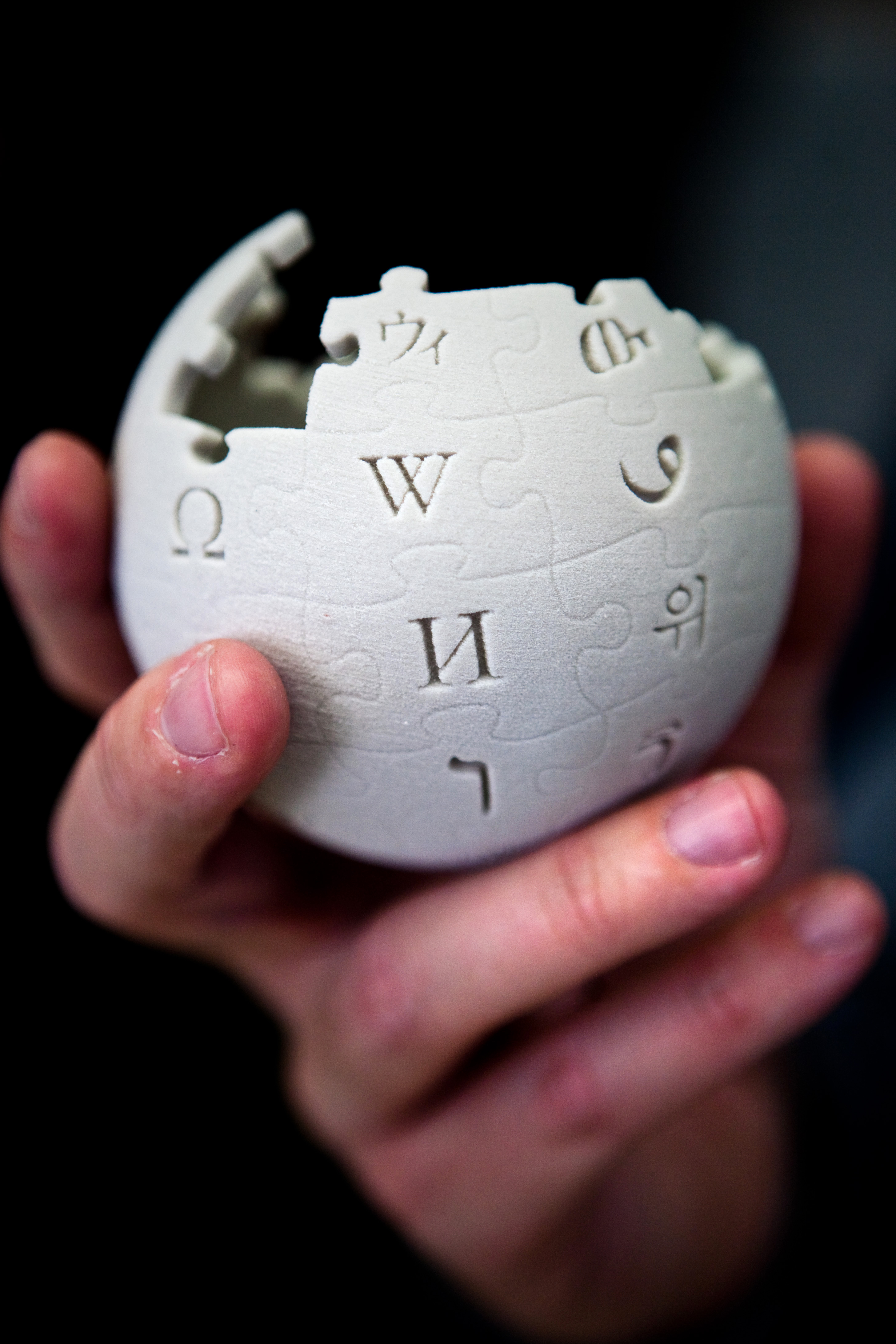 Mini Wikipedia globe at the Wikimedia Foundation offices, San Francisco, California